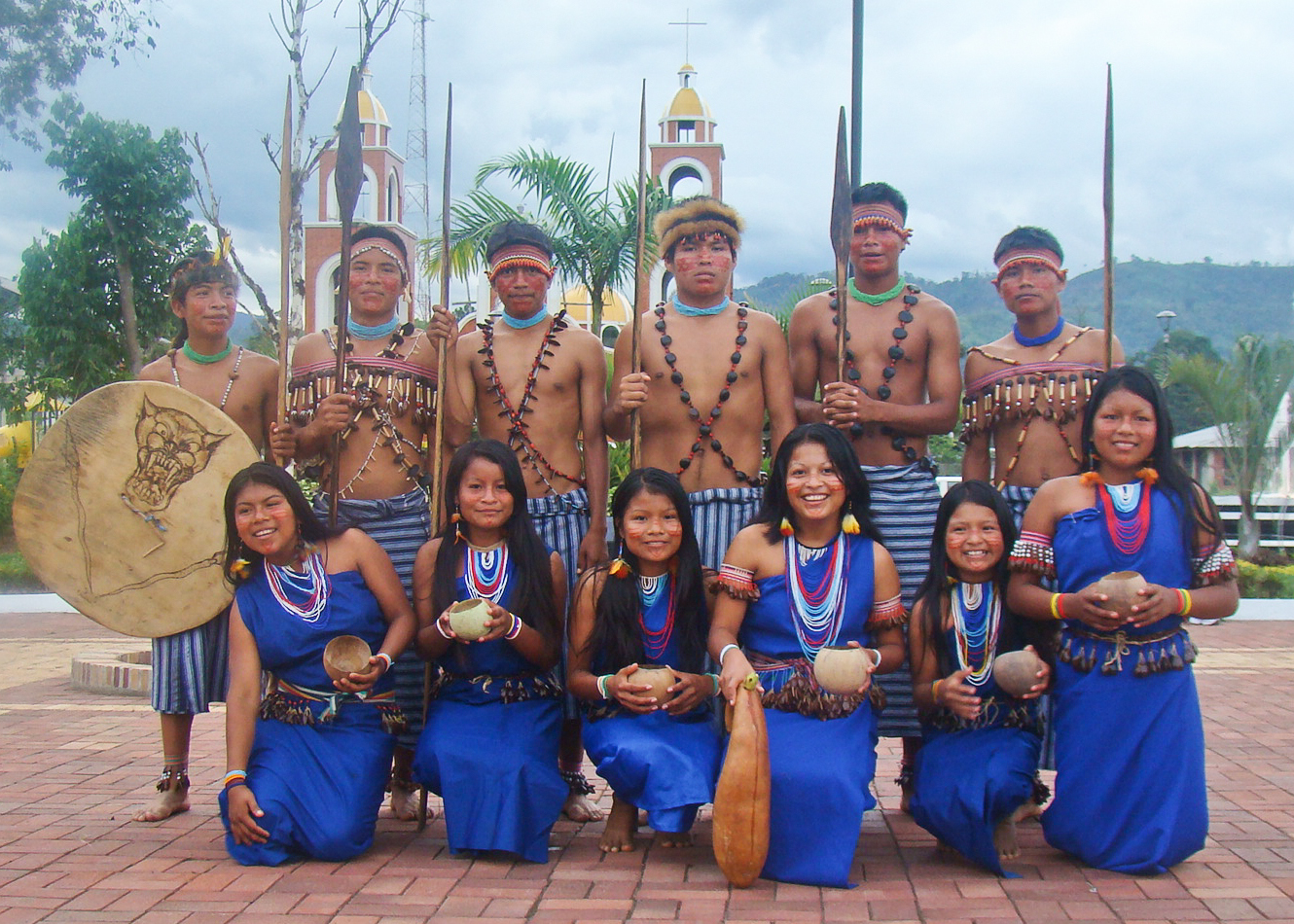 Shuar group in the park of Logroño, Ecuador